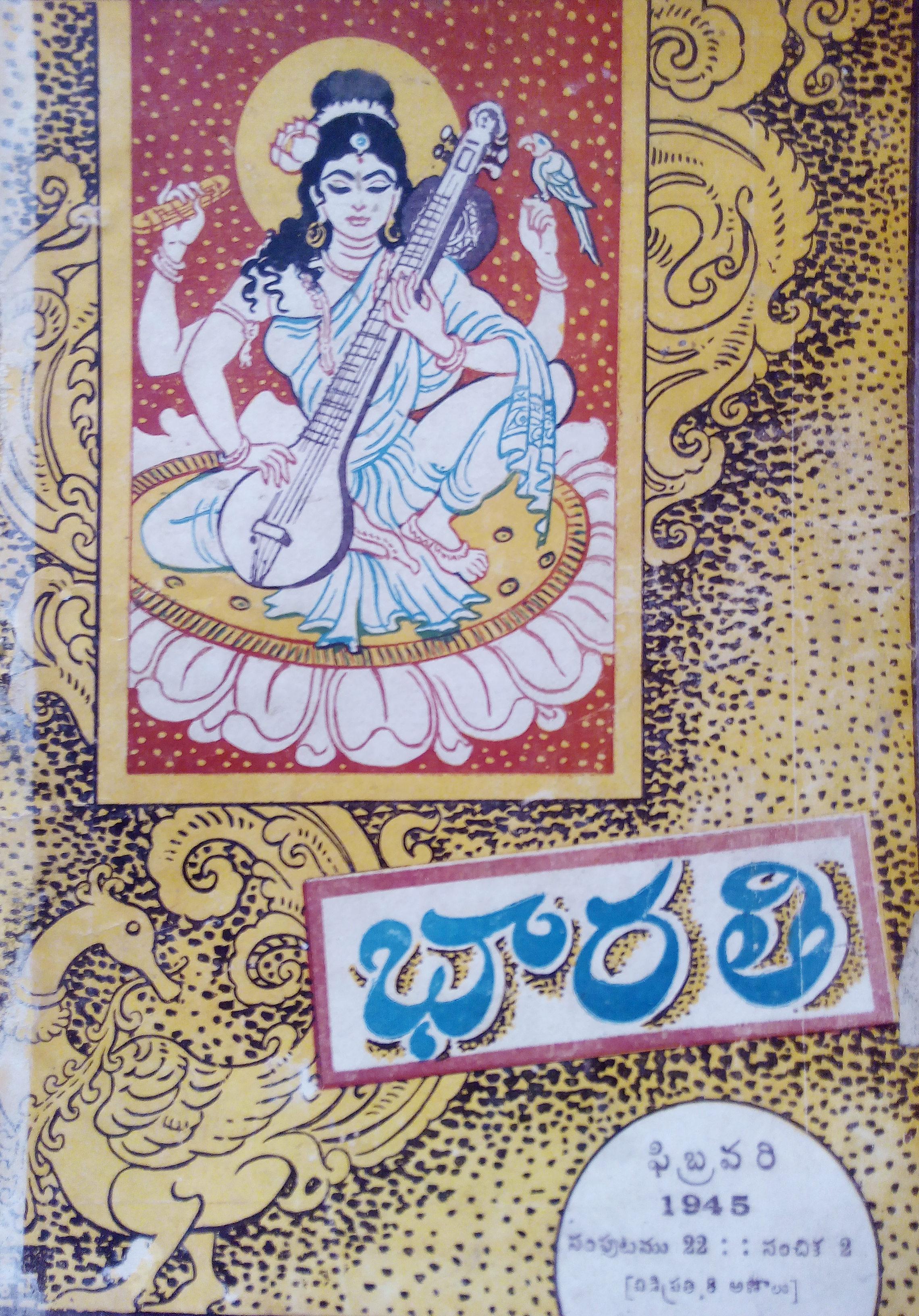 Bharati manthly cover page -1